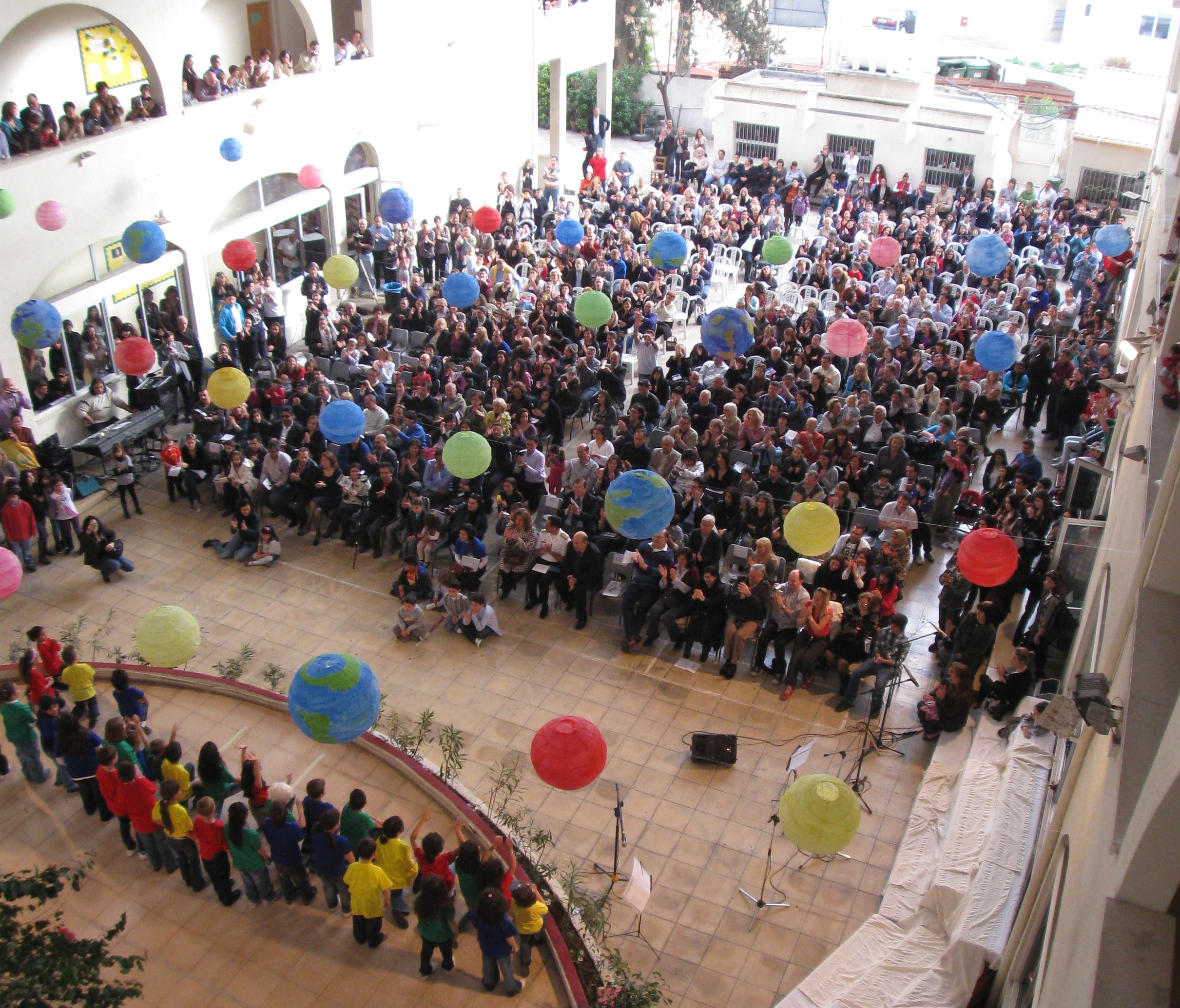 The photo shows children on stage receiving the applause of an audience at a school (the American Academy Nicosia) function.